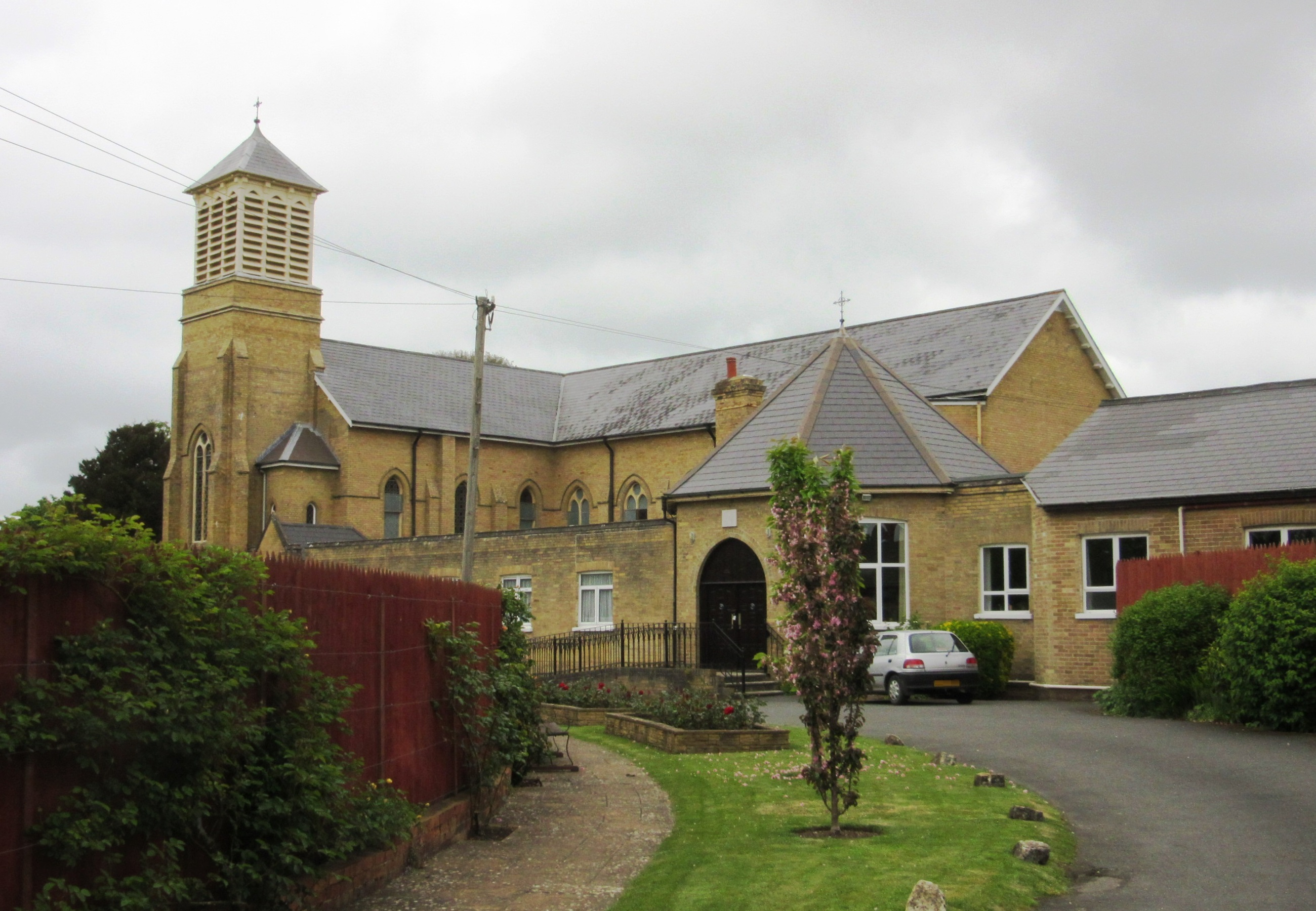 St Cecilia's Abbey, Appley Rise, Ryde, Isle of Wight, England. As well as being a Benedictine abbey, this chapel holds regular public Roman Catholic Masses and is accordingly registered as a public place of worship. It is within the Catholic Parish of Ryde and is a locally listed building.